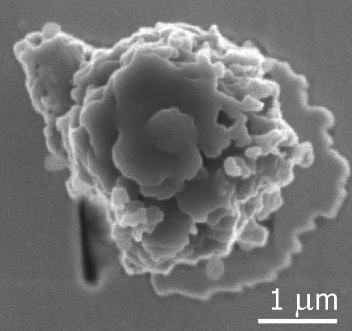 SEM (Scanning electron microscope) image of the presolar SiC X grain KJG-N4-585-2 after NanoSIMS analysis, and before slicing with the diamond ultramicrotome.